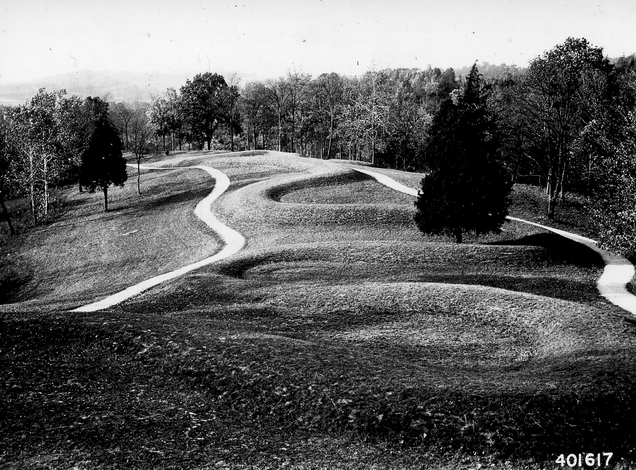 Scope and content: Original caption: Part of the Serpent Mound in Serpent Mound state park west of Pertsmouth, Ohio. This mound is more than 1/4 mile in length and in some places as much as 5' high. Mounds such as this were built by prehistoric Indians and although their exact purpose is not.